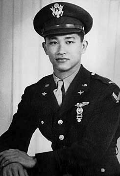 2nd Lt. Wah Kau Kong. Press release photo.